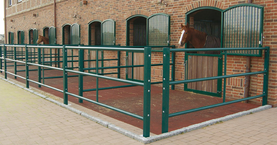 Stable rubber-based paddock